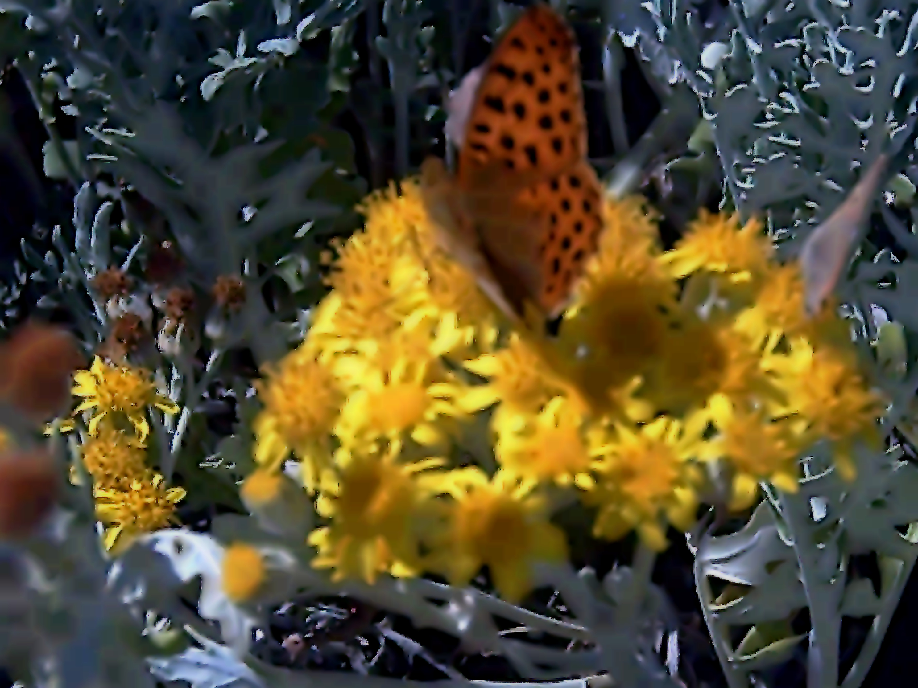 Senecio cineraria A work release by Javier martin Puertollano, 17 Juni 2006, Senecio cineraria take in Dehesa Boyal de Puertollano, Cities of Spain, donated to Wikipedia